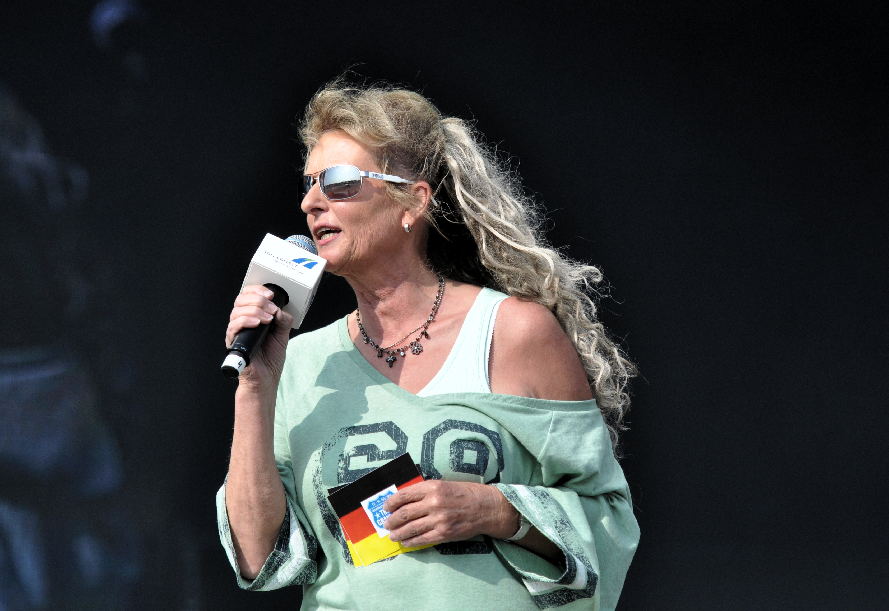 Dagmar (Lay D.) at the International Truck Grand Prix Country Festival 2013, Nürburgring, Germany